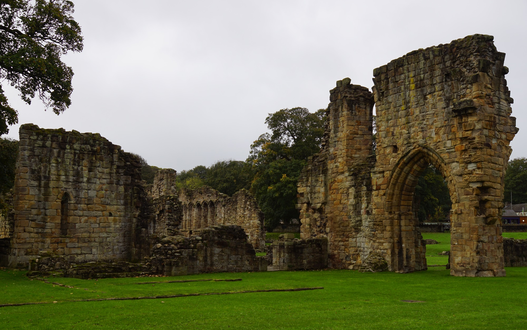 Basingwerk Abbey, Wales. Seen from northeast with southern transept (right) and refectory (in the back).